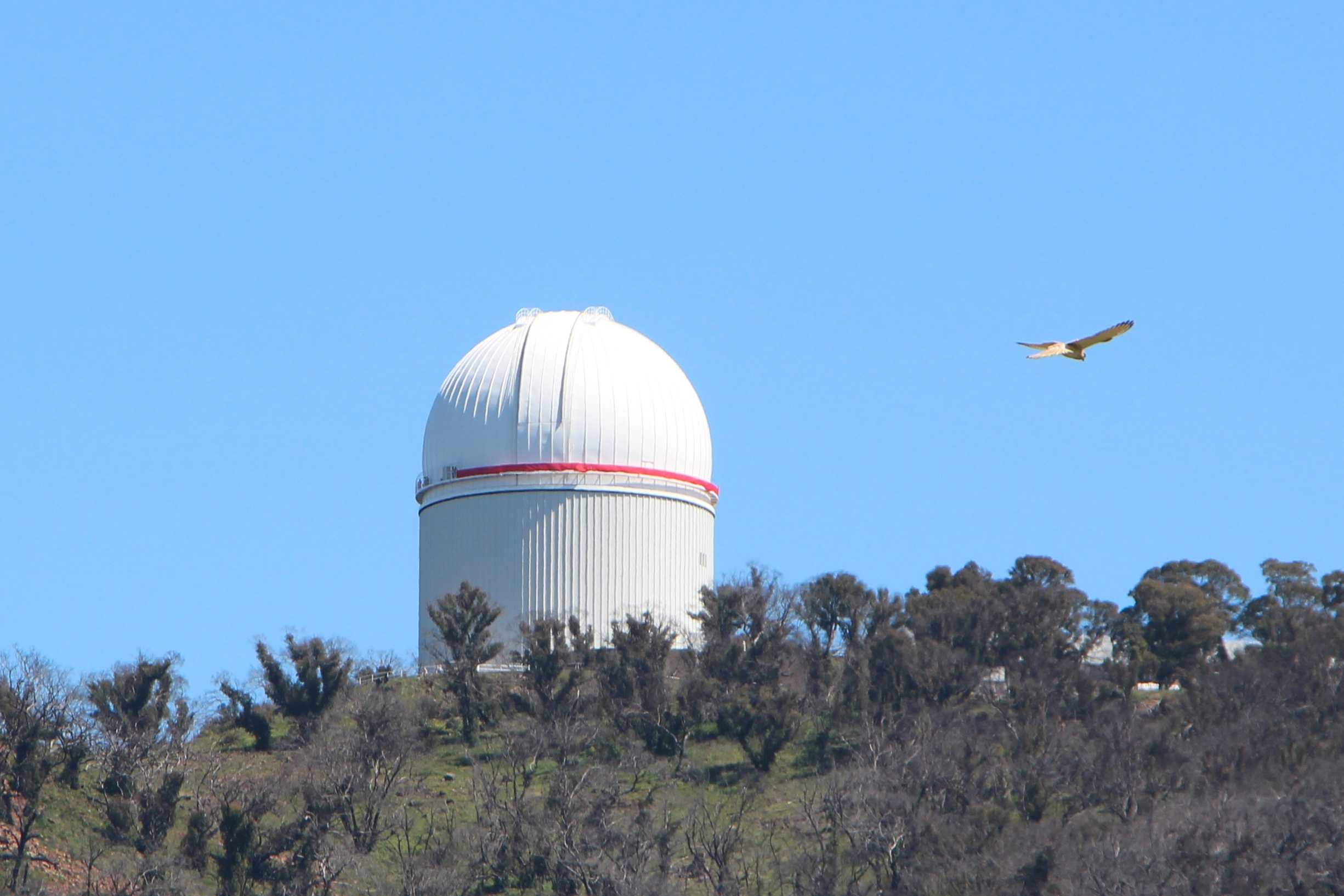 From a distance of 2 km, the dome of the Anglo-Australian Telescope. This picture taken on 4 October 2014, during the "StarFest" celebrations for the telescope's 40th anniversary. The stunted trees are recovering from the bushfires which came close to the telescopes in January 2013.